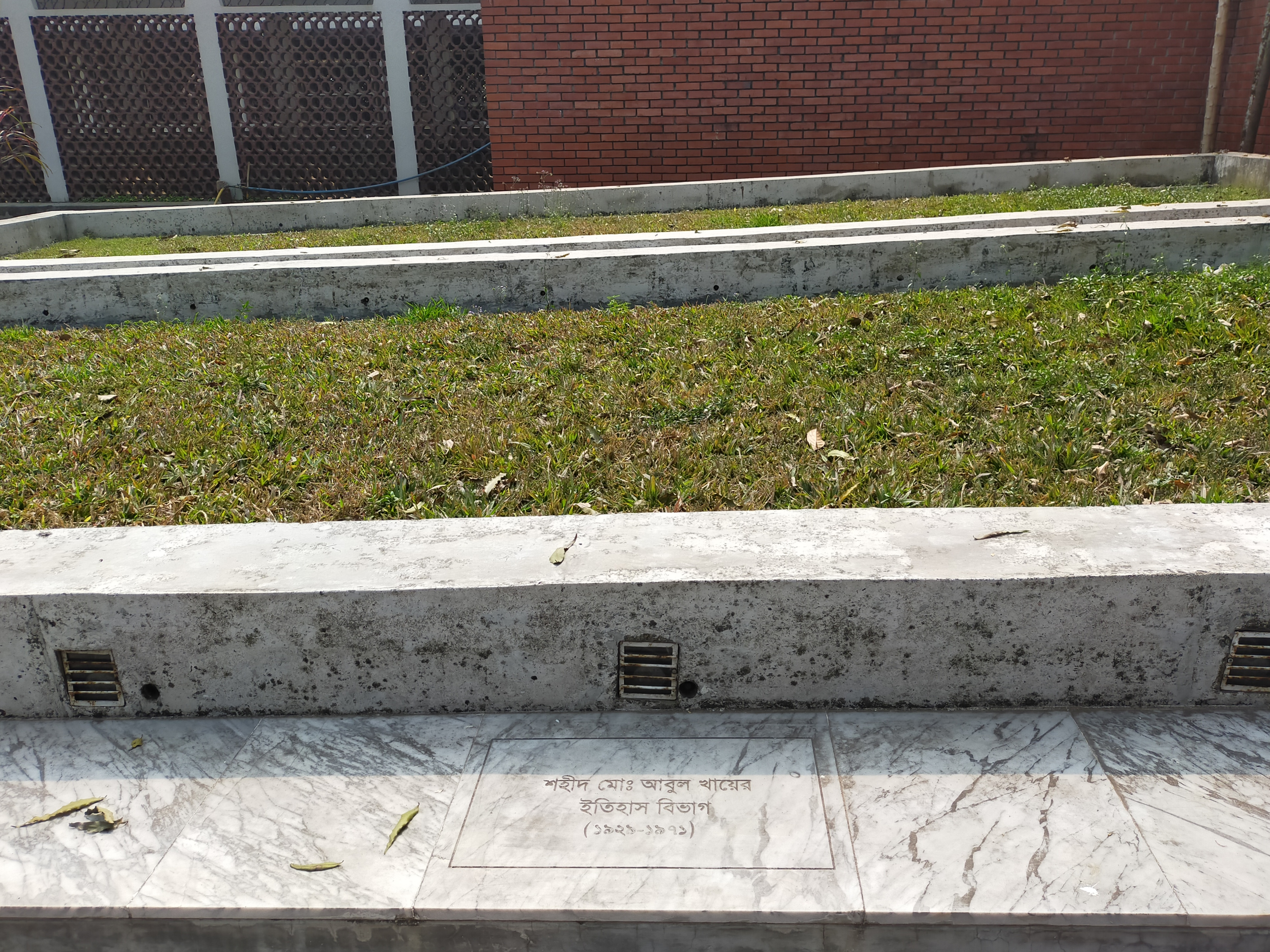 Grave of Abul Khair (1929 – 1971) by the side of Dhaka University central mosque, a Bengali educationist and a martyred intellectual of 1971.